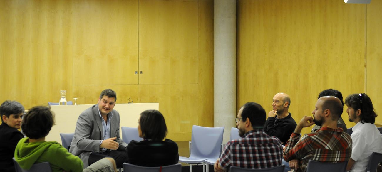 Literary gathering with Thomas Bidegain